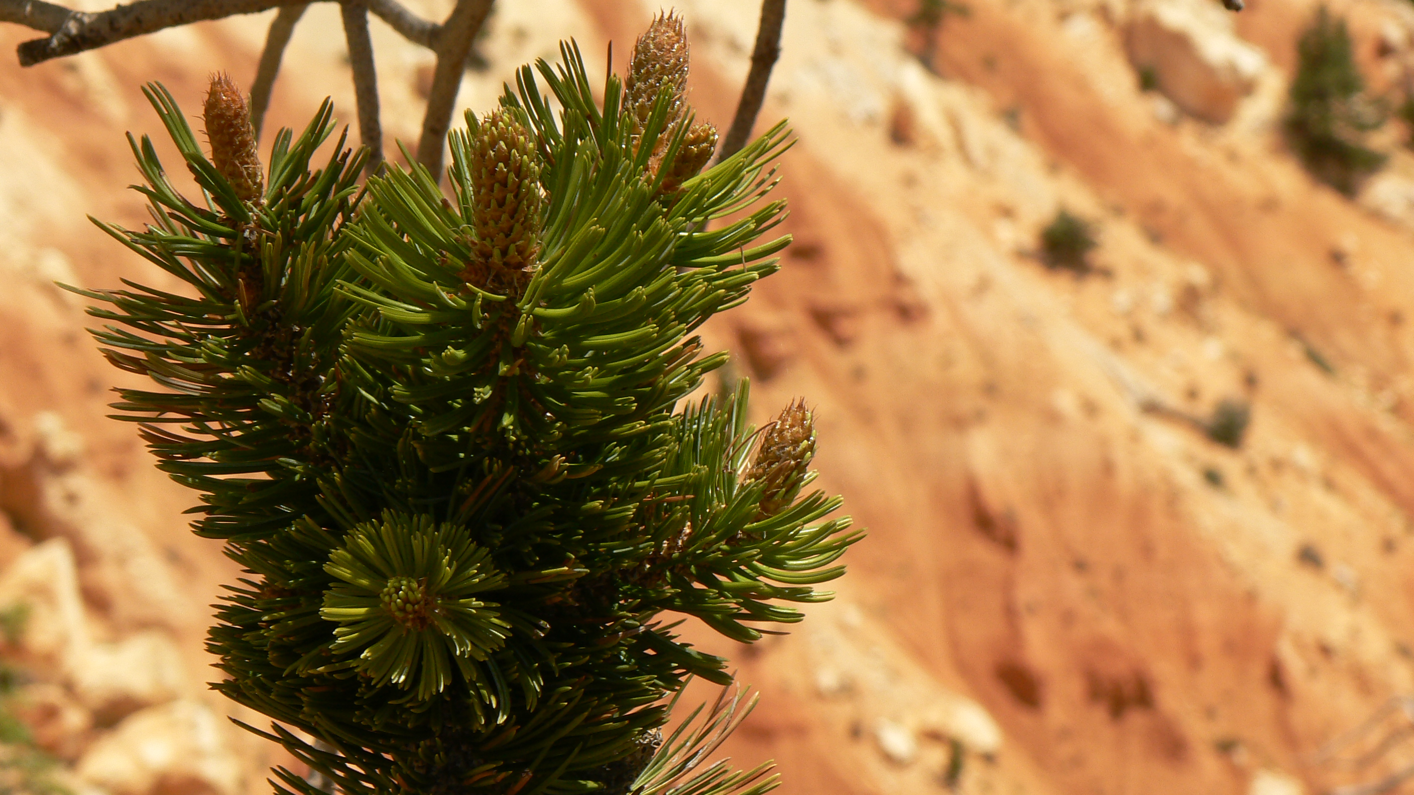 Bristlecone Loop trail at Rainbow Point, detail of Pinus longaeva, the intermountain bristlecone pine.